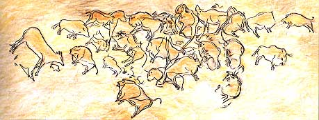 Reconstruction panel made of bison in Altamira Cave (Cantabria, Spain)